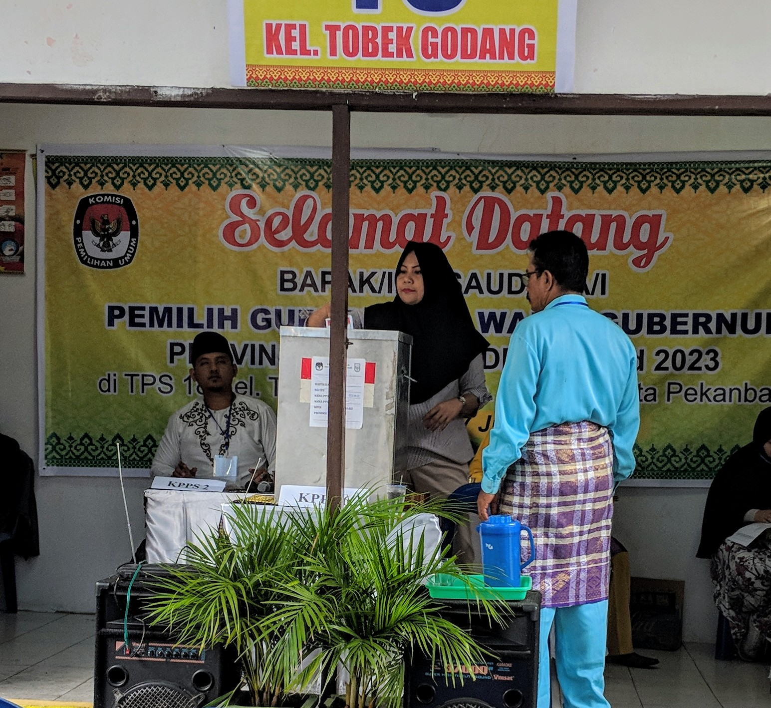 Voter submitting her ballot for the Indonesian local elections, 2018 in Tobek Godang, Pekanbaru, Riau